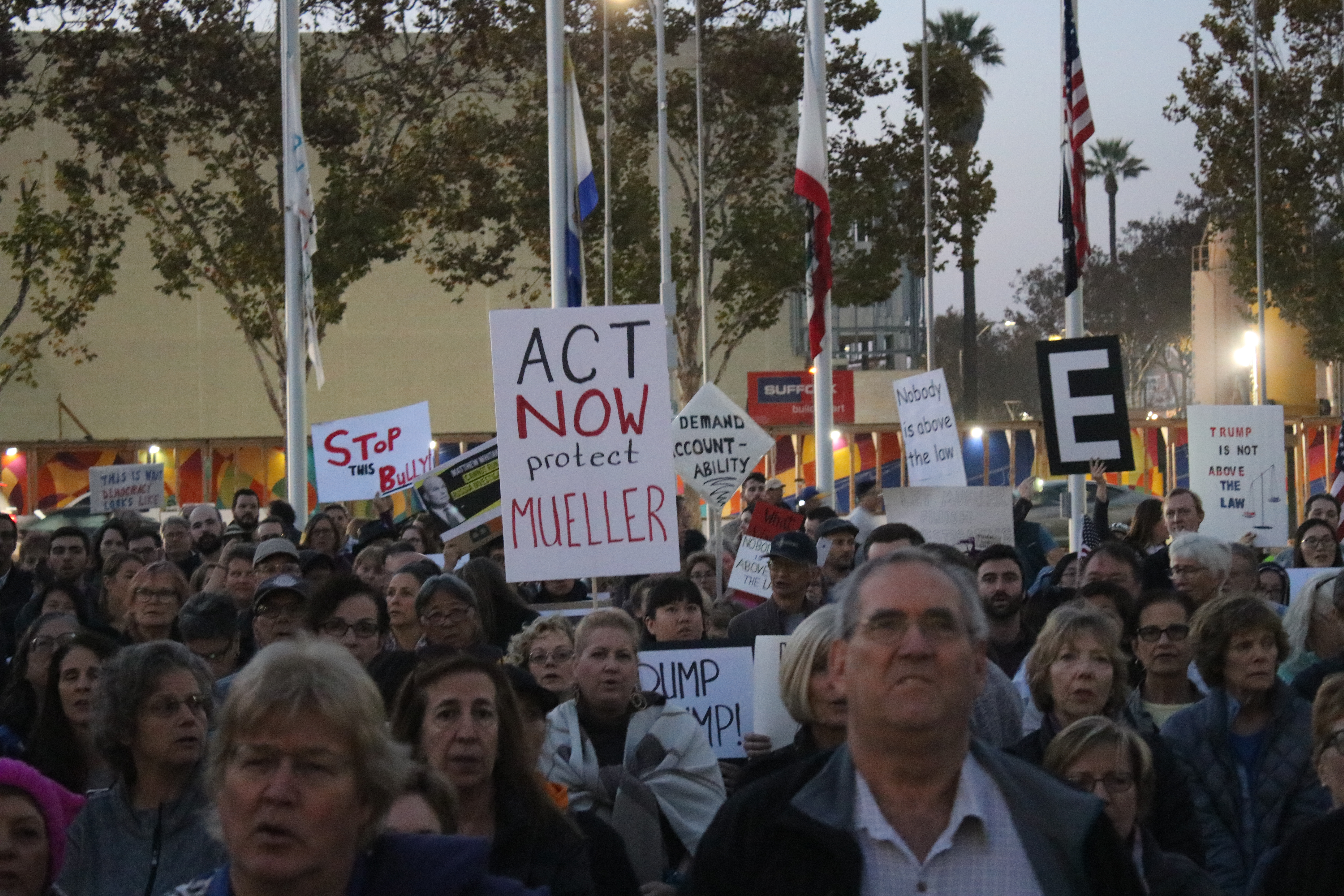 Protesters in San Jose, California at the Protect Mueller rally in front of City Hall.